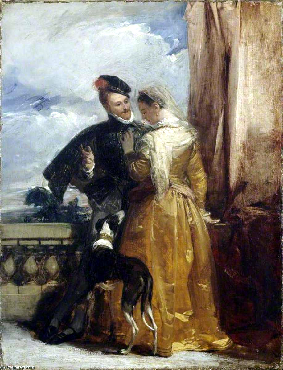 Robert Dudley, Earl of Leicester and his wife Amy Robsart. Painting of the Romantic era by Richard Parkes Bonington.